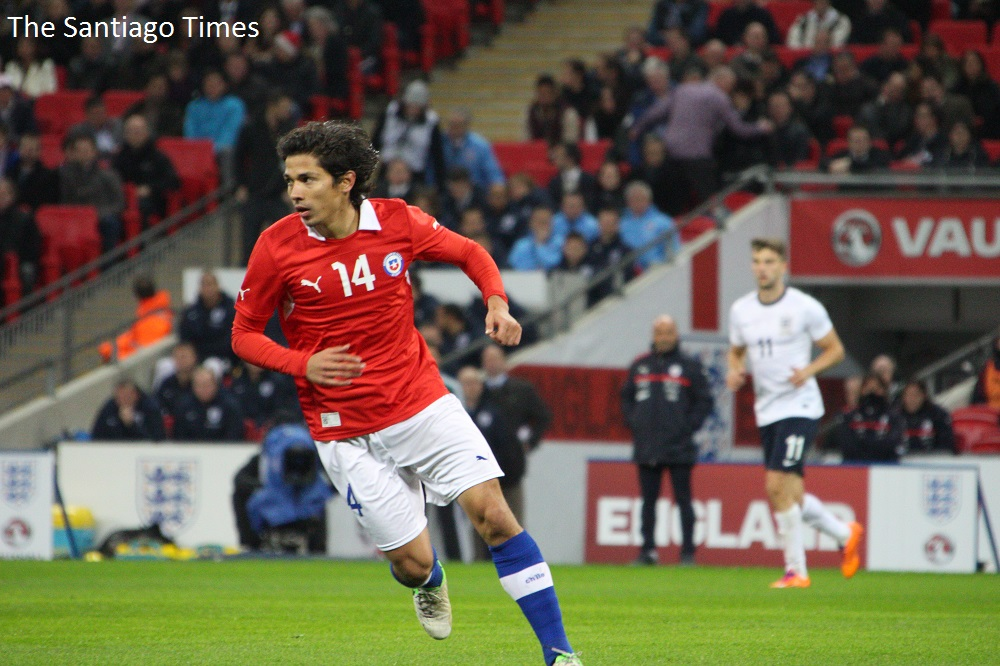 Chile 2-0 England Nov. 15, 2013.